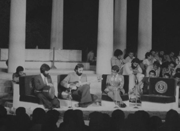 L-R Naser Farhangfar (Tombak Player), Mohammadreza Lotfi (Tar Player) and Mohammad reza Shajarian (Signer) Performing at The Shiraz Arts Festival 1976